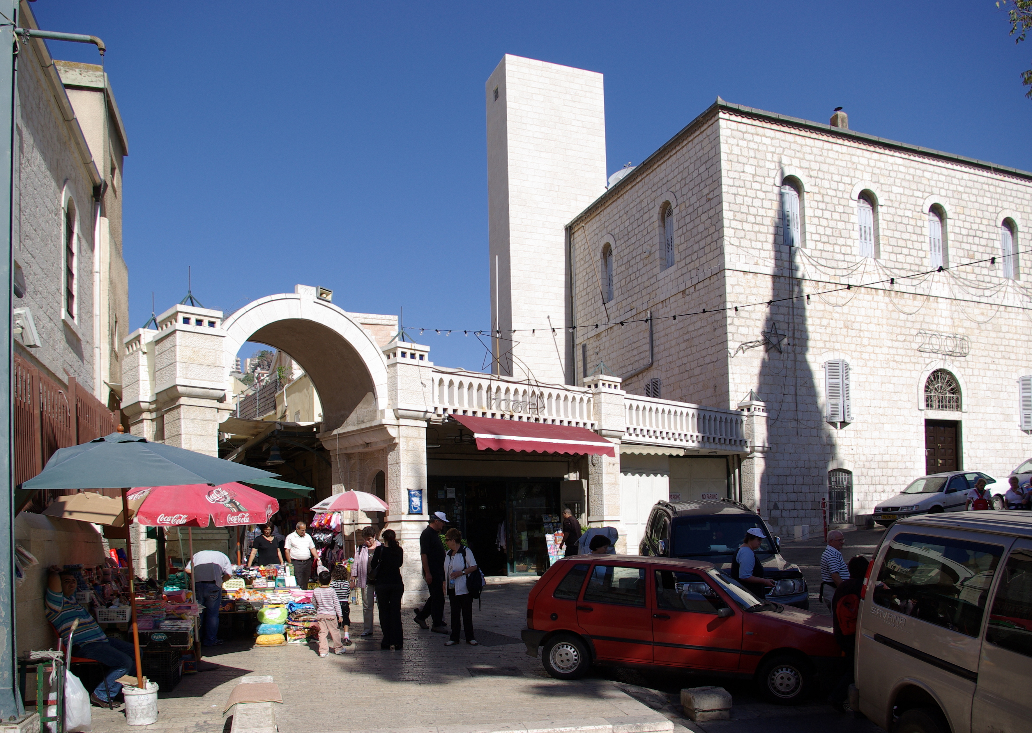 Nazareth, Souk